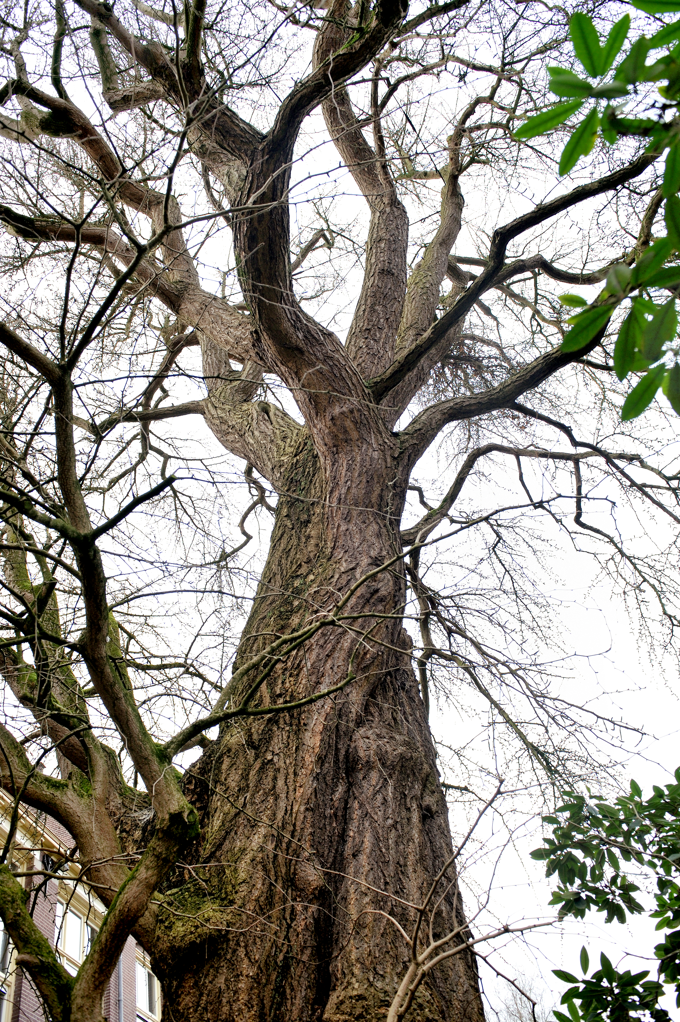 Looking up at a ginkgo tree (Ginkgo biloba) on the west side of the Oude Hortus (old botanic garden) in Utrecht, perhaps planted around 1730 at the very earliest, but more probably decades later. Show on map / 52.084556°N 5.1265139°E.